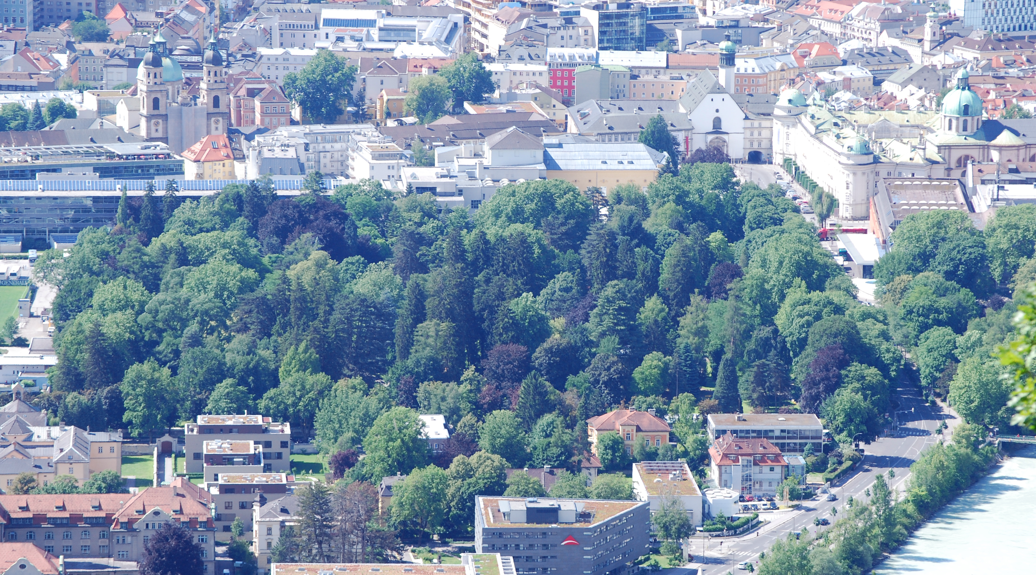 Hofgarten from N